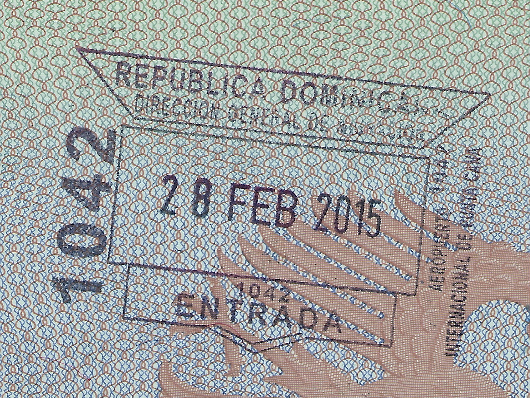 Passport stamp (entry to the Dominican Republic).